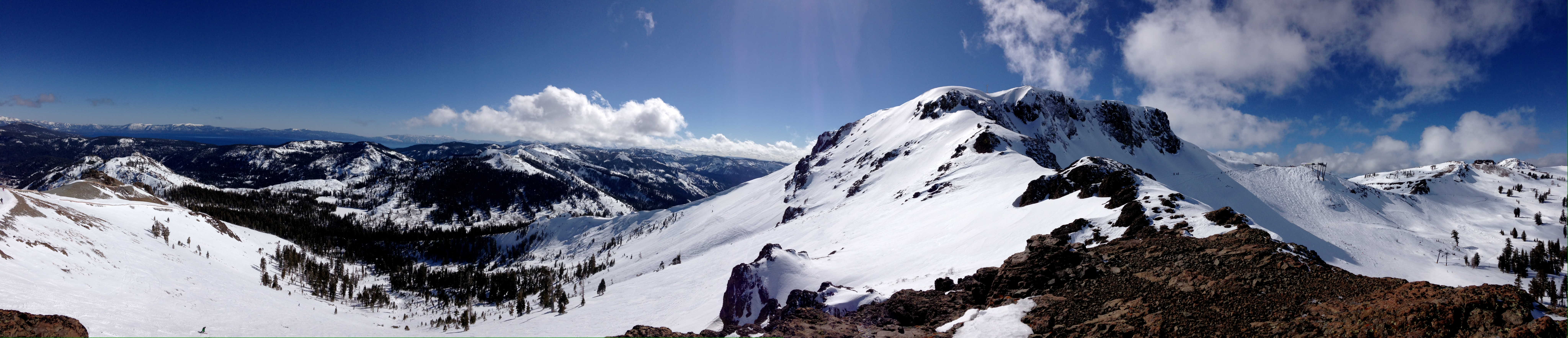 A view of the North Bowl and Lake Tahoe from the top of headwall